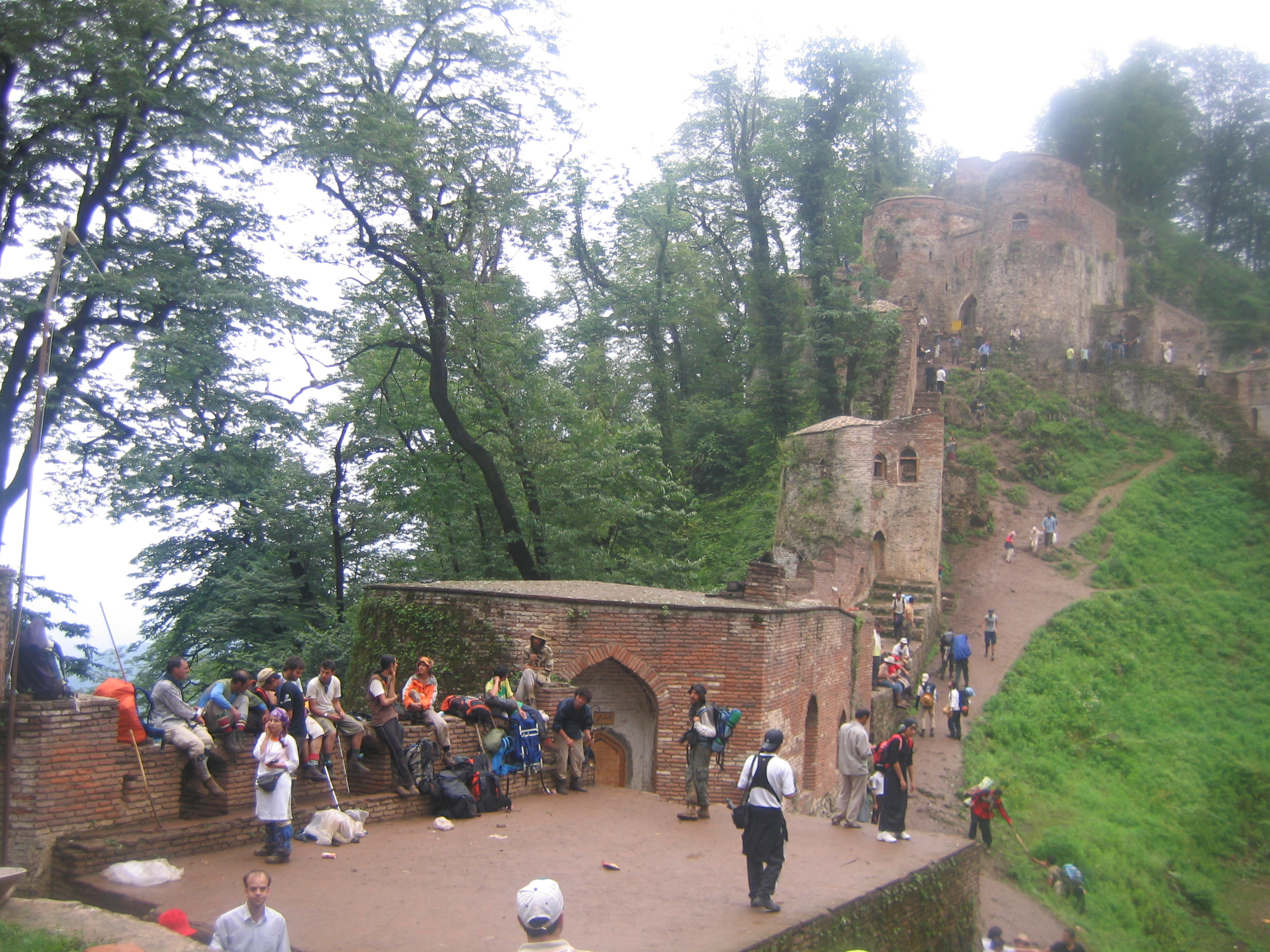 rudkhan region somewhere close to Rudkhan Castle